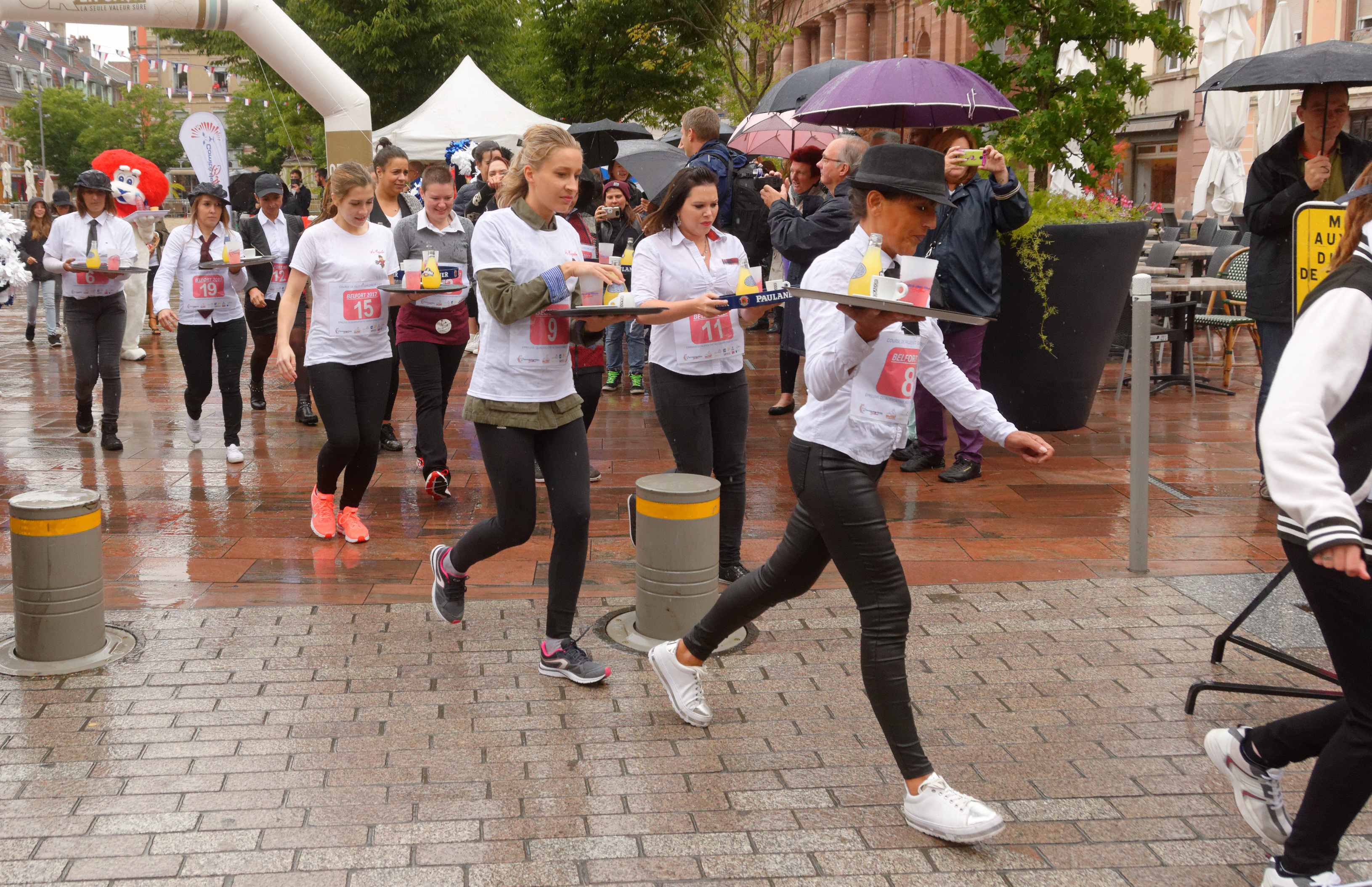 Personality rights warningAlthough this work is freely licensed or in the public domain, the person(s) shown may have rights that legally restrict certain re-uses unless those depicted consent to such uses. In these cases, a model release or other evidence of consent could protect you from infringement claims.